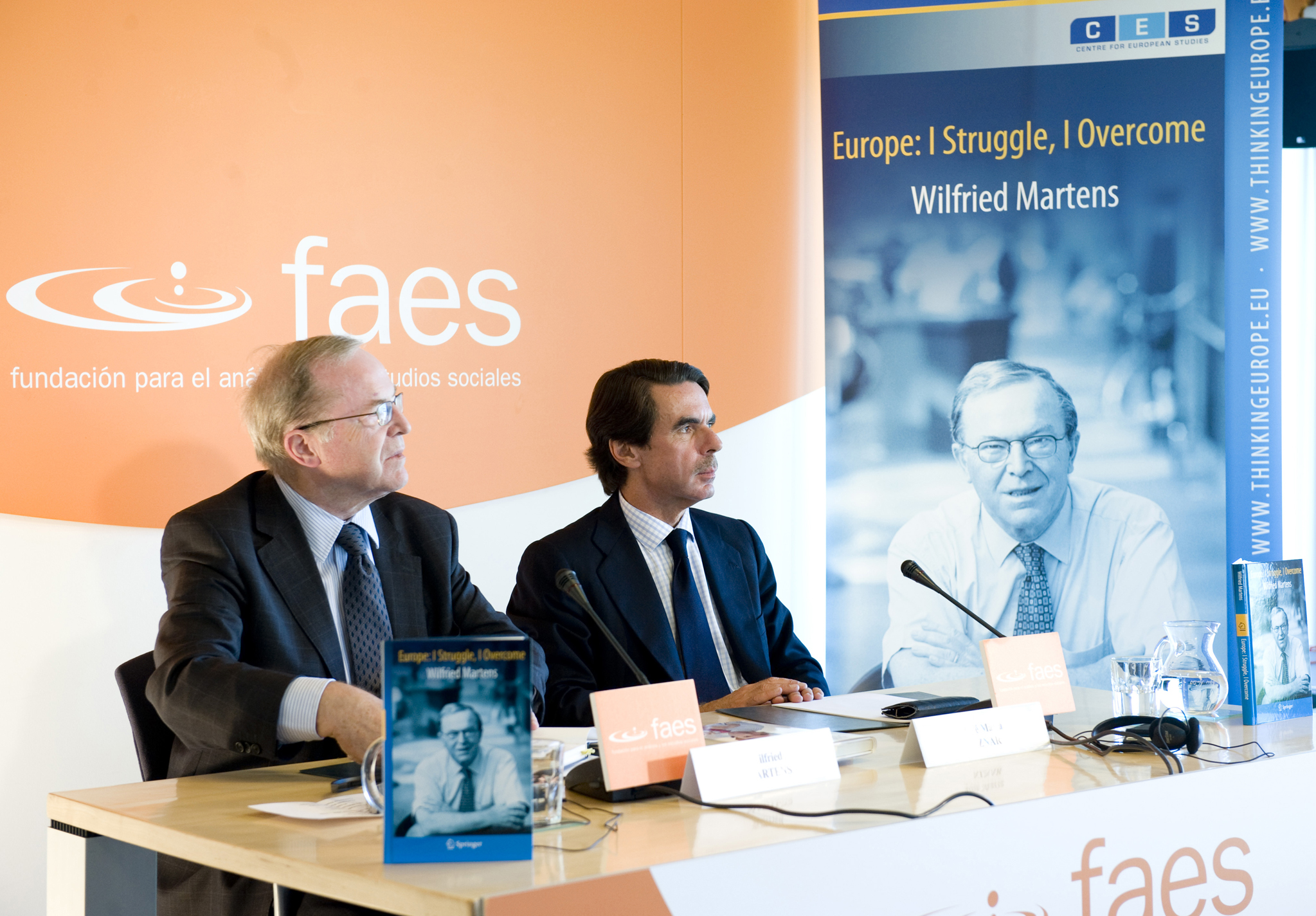 Book Presentation